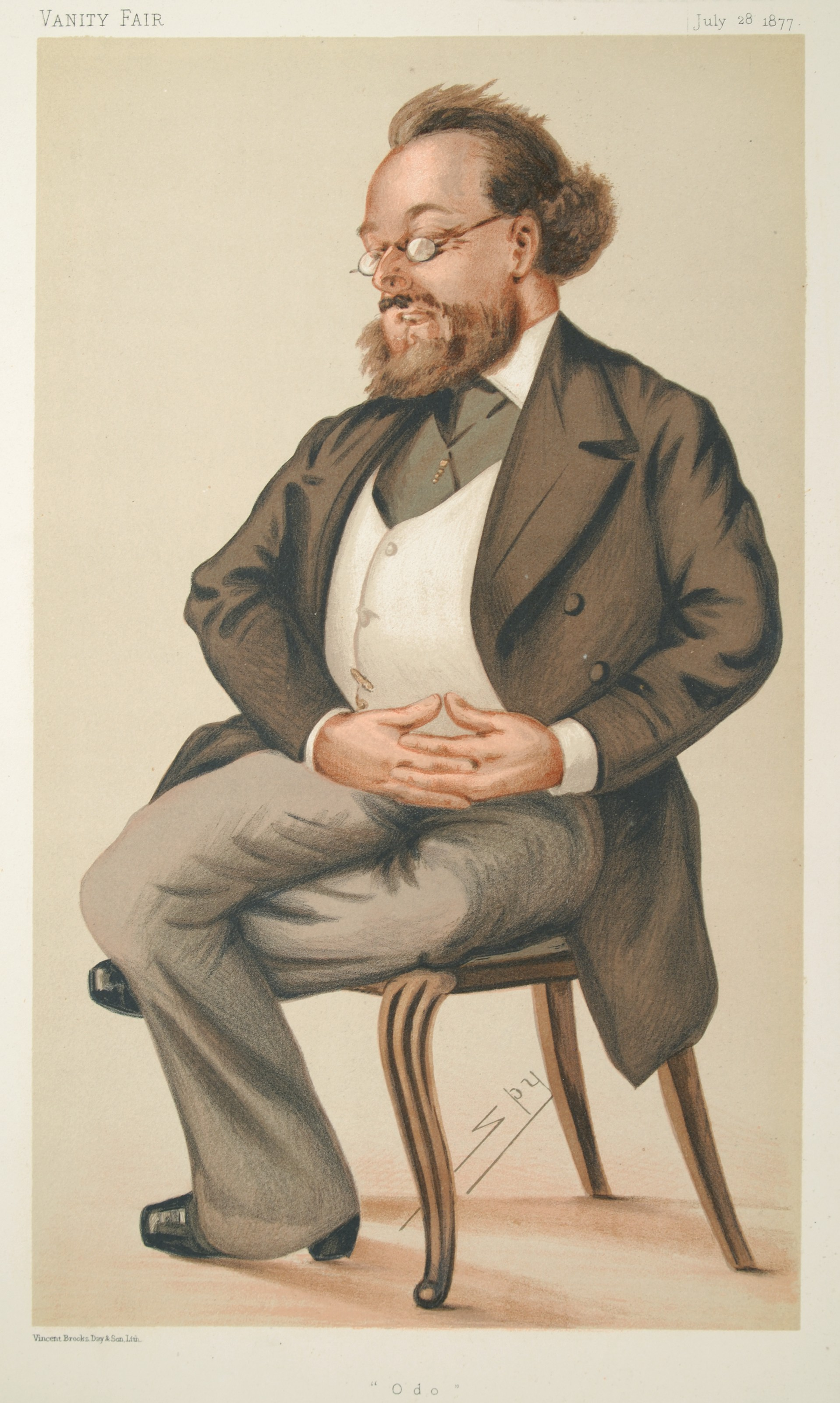 Men of the Day No.0153: Caricature of The Rt. Hon. Lord OWL Russell GCB. Caption reads: "Odo"